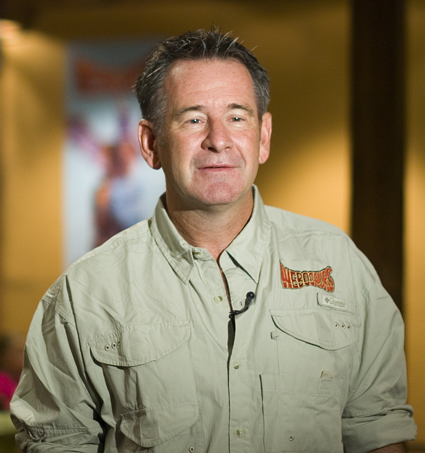 Nigel Marven at the Webosaurs Offical Launch in Dallas, 2009.